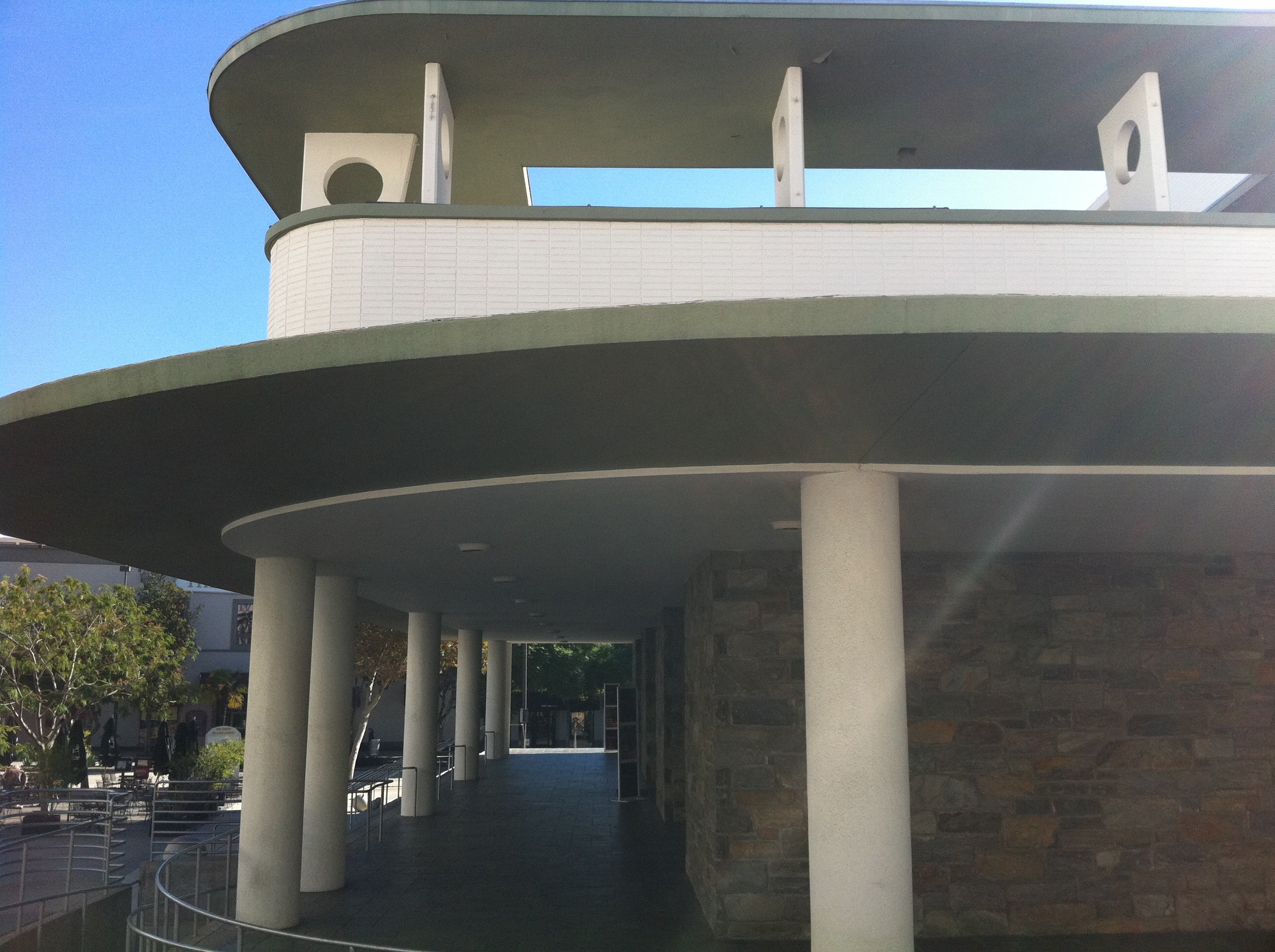 Bullock's Pasadena (looking east) — South Lake Drive, Pasadena.